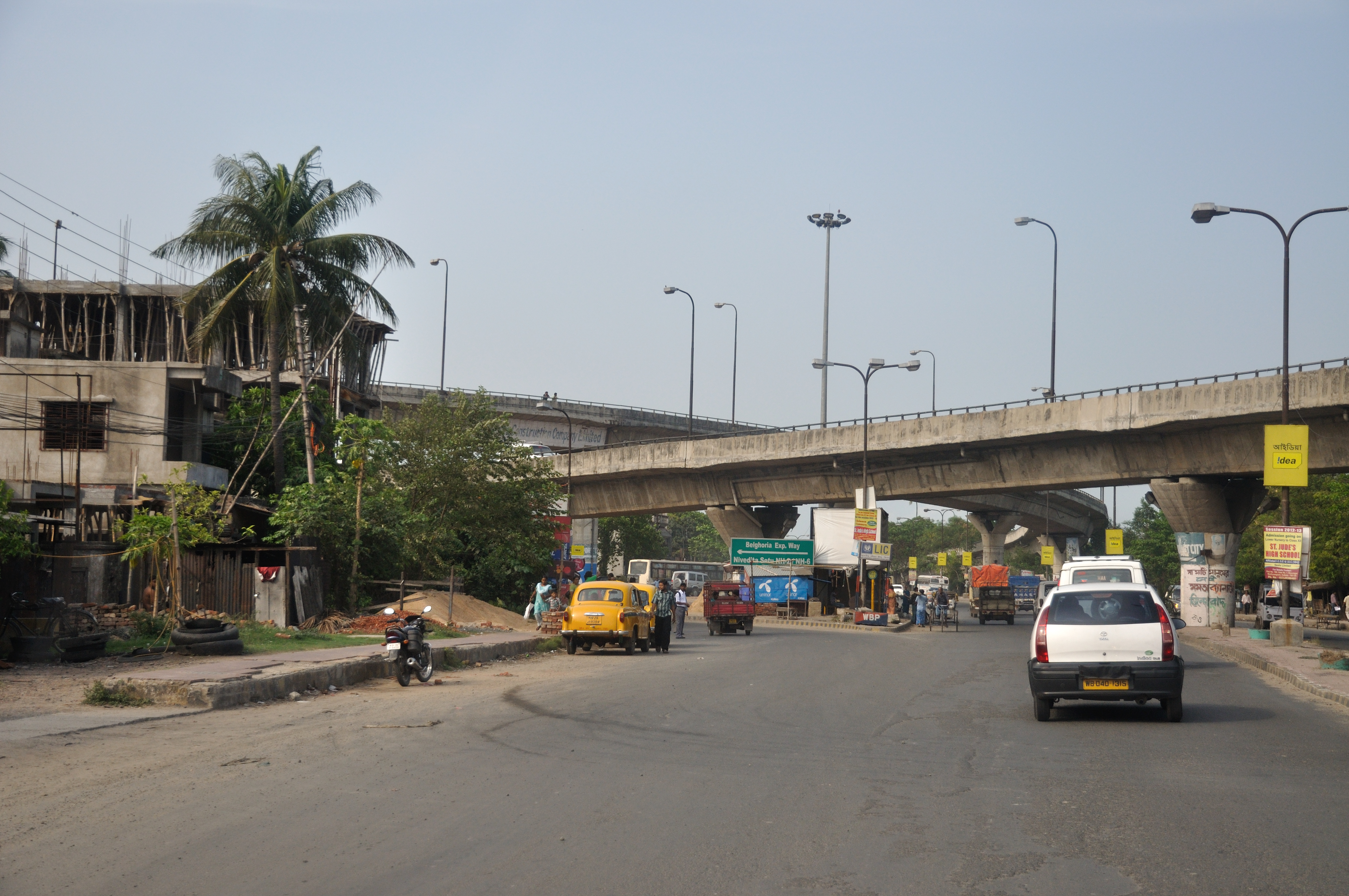 Photographed in West Bengal.